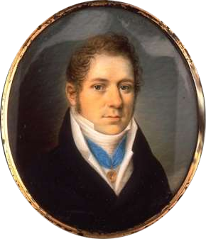 Finnish merchant Johan Henrik Linderth (d. 1835)